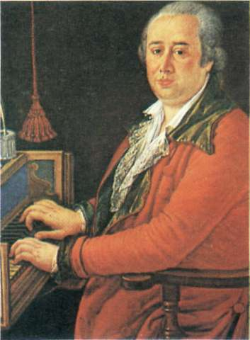 Portrait of Domenico Cimarosa (1749-1801)